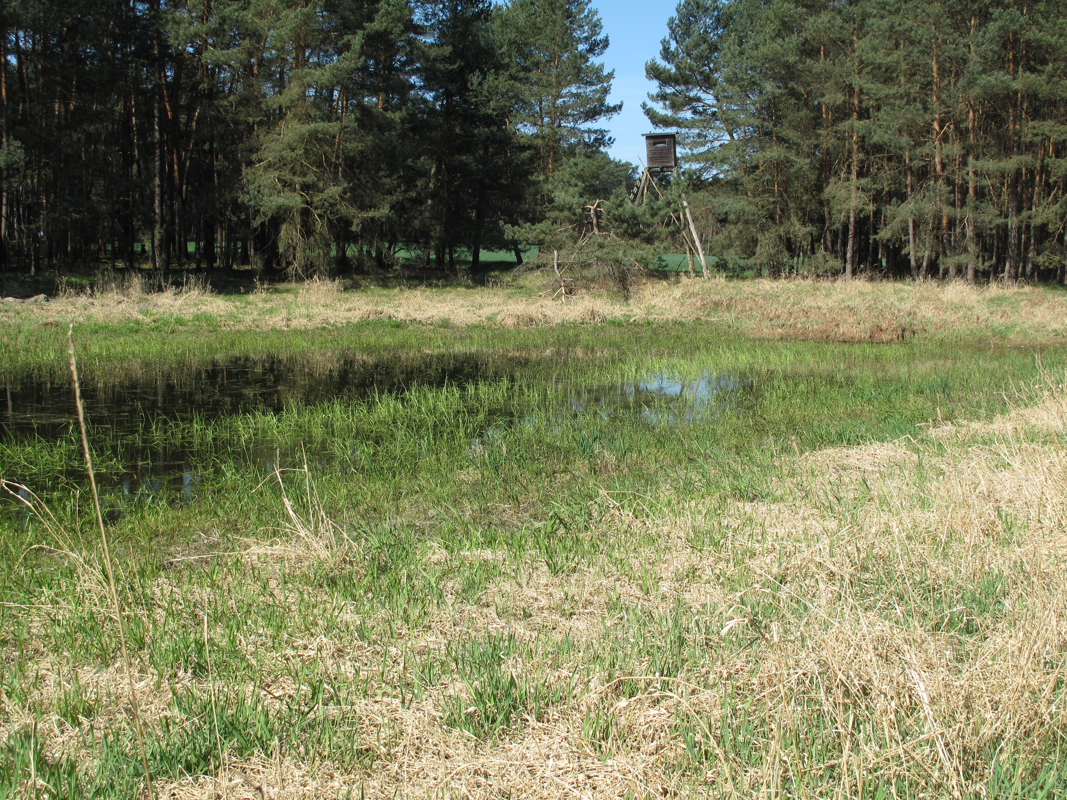 Small lake of the two lakes in the Reichardtsluch. The Reichardtsluch (other spellings: Reichardsluch, Reichards-Luch) is a Luch in Limsdorf, a part (german: Ortsteil) of the town Storkow in the District Oder-Spree, Brandenburg, Germany. It is situated in the Dahme-Heideseen Nature Park. The Luch is a part of the Natura 2000-area Schwenower Forst Ergänzung (Schwenower Forst supplement), which belongs to the Natura 2000-area und protected area Naturschutzgebiet Schwenower Forst. It is protected for its amphibian conservation. The Reichardtsluch is flown by the Schwenowseegraben.